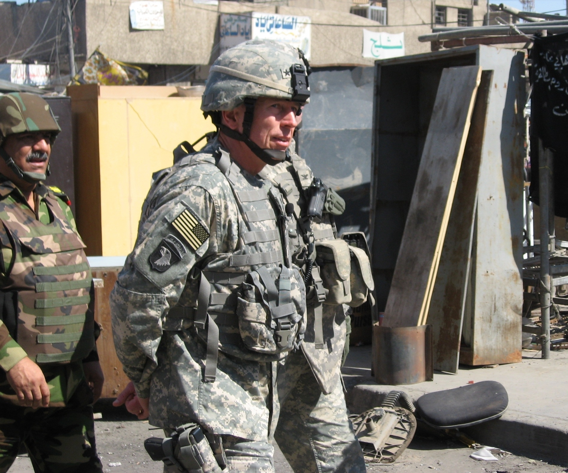 Gen. David H. Petraeus began his efforts to troop the lines throughout Iraq over the last month. Here, he is reviewing the conditions at Zafaraniyah Market in northeast Baghdad after increases in security were implemented. In mid-February this same market was devastated by two car bombs that killed more than 50 civilians.